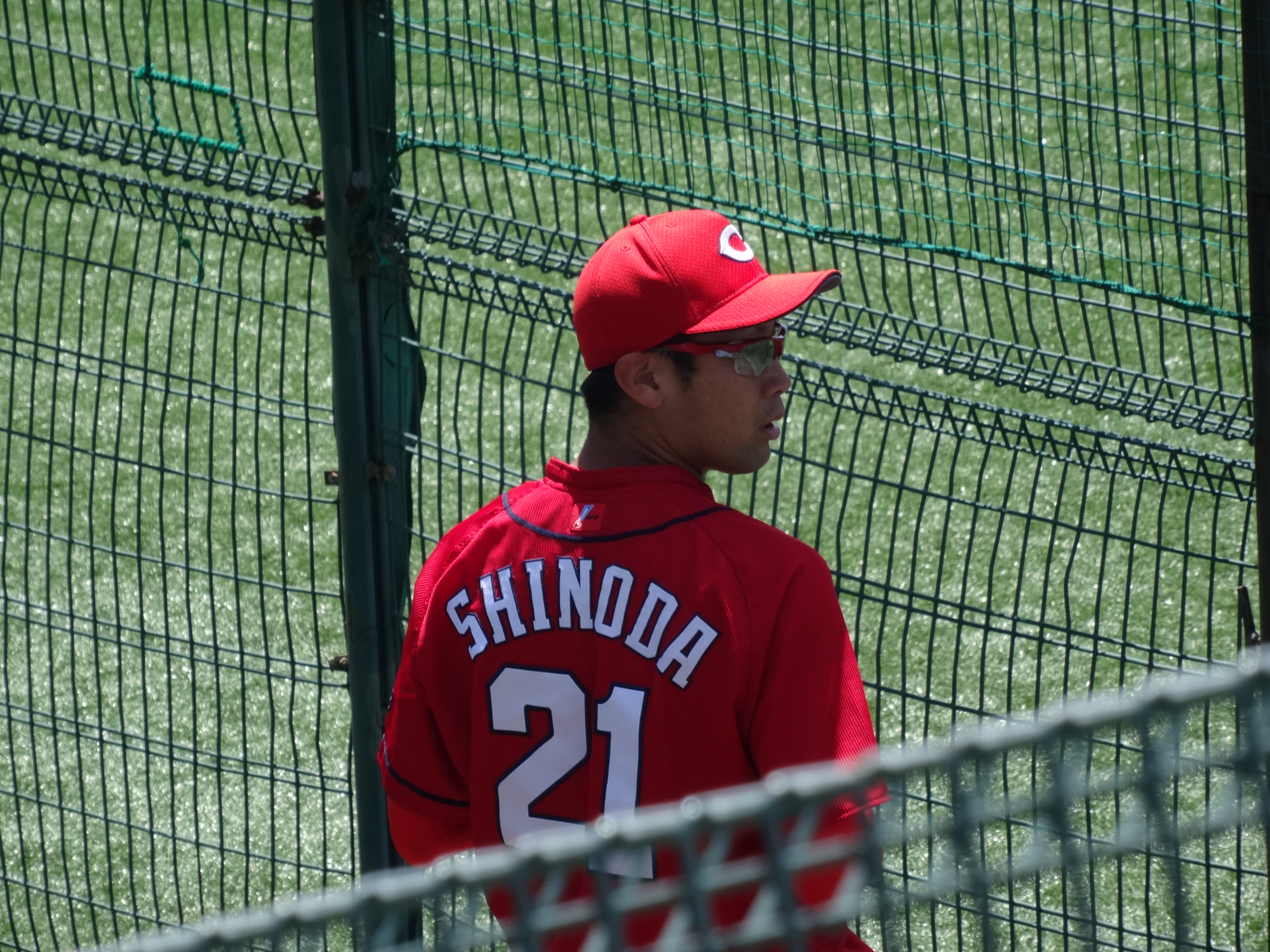 Junpei Shinoda, pitcher of the Hiroshima Toyo Carp, at Kobe Sports Park Sub Baseball Ground.